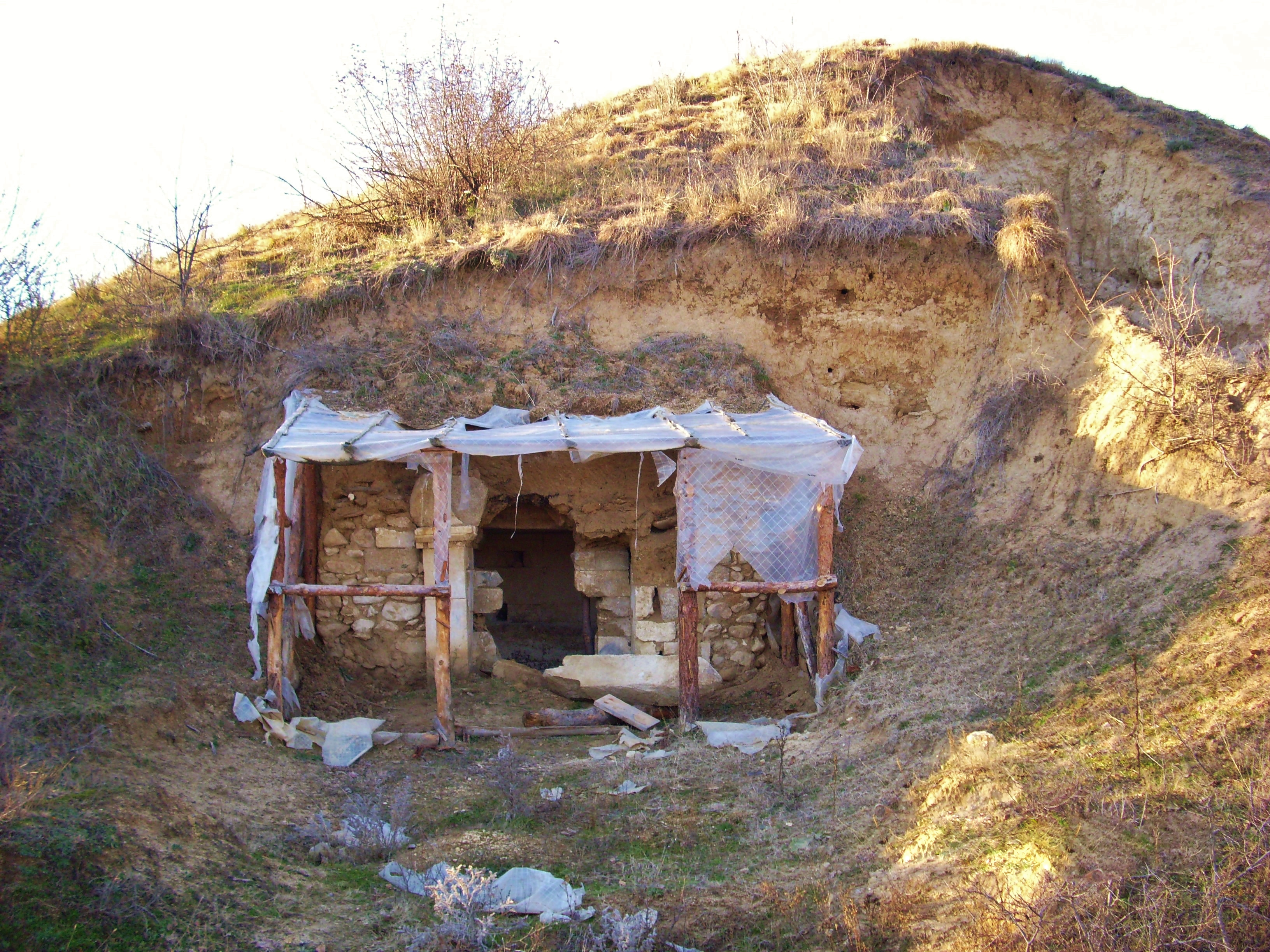 Nedkova Elenishka Tumulus Entrance Starosel Bulgaria